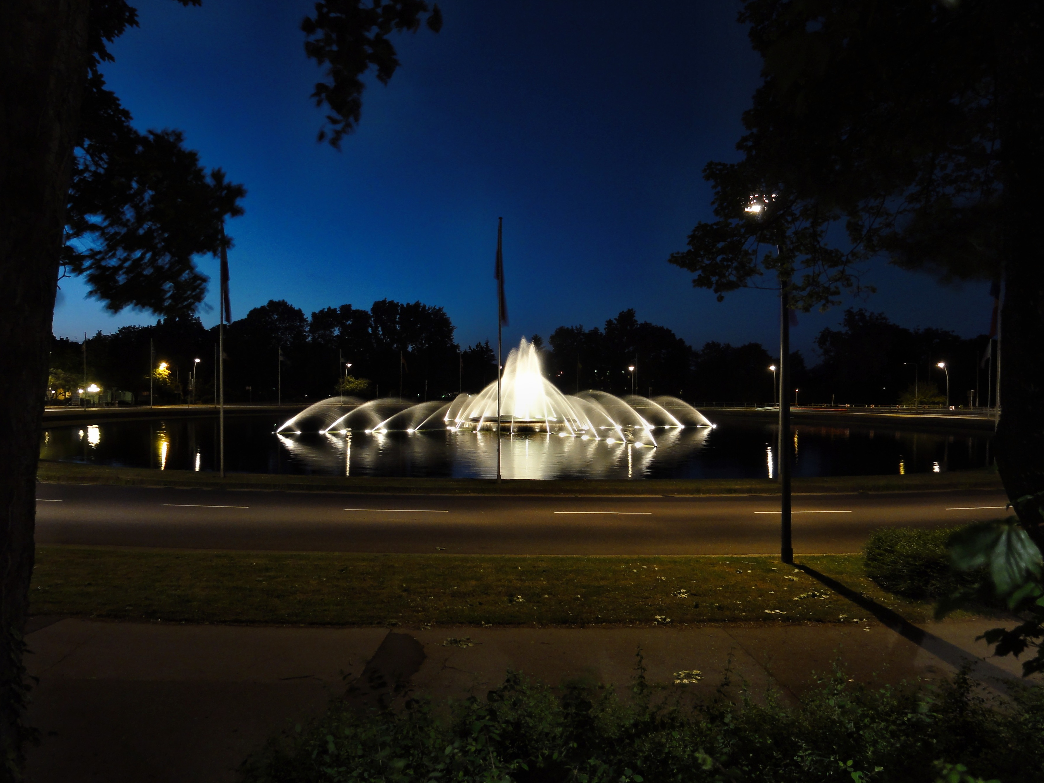 Aachen (Aix-la-Chapelle), Europaplatz at night